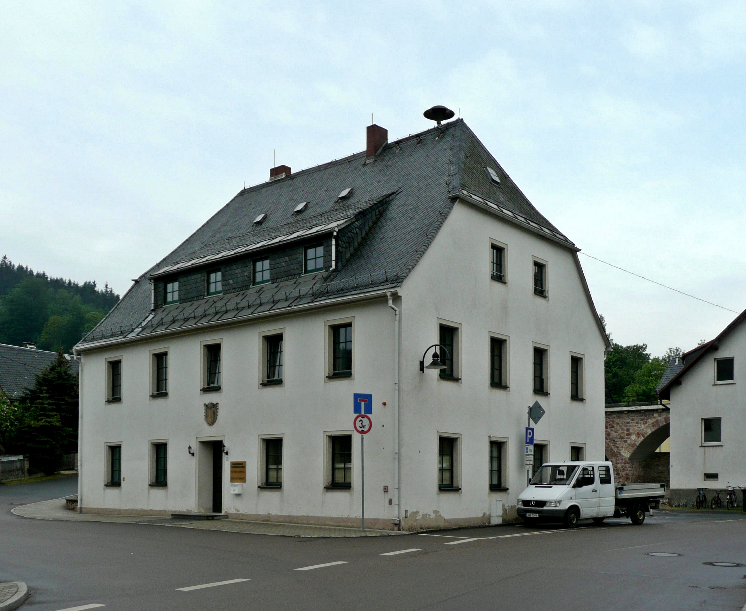 This image shows the house of the local government in Schmiedeberg.